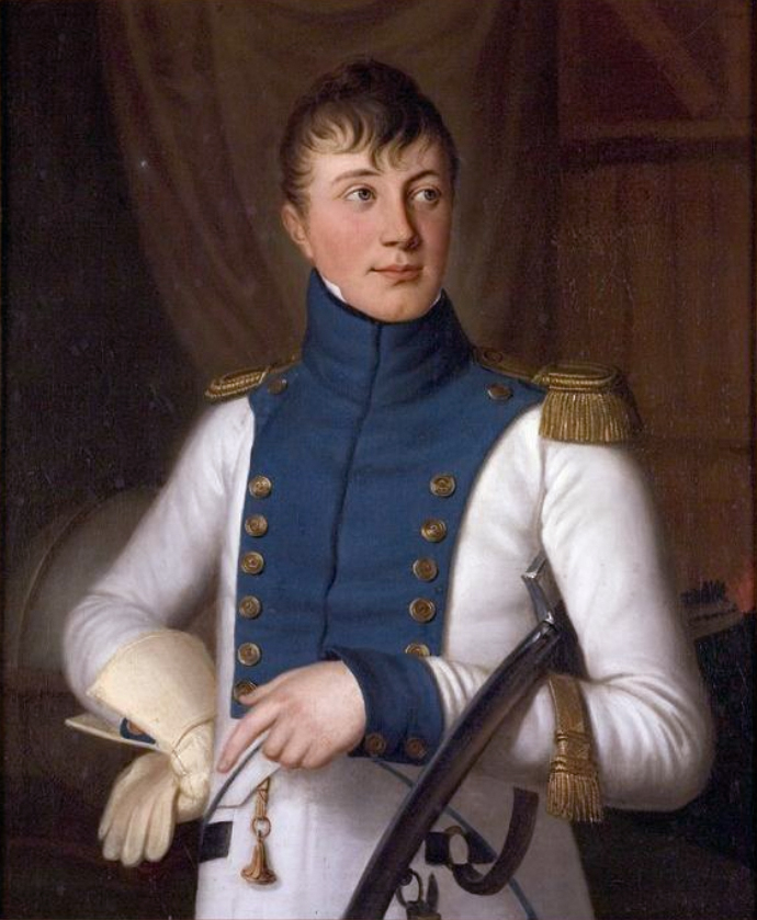 Carel Sirardus Willem van Hogendorp (1788-1856) oil on canvas 80 x 64 cm 1806-1810